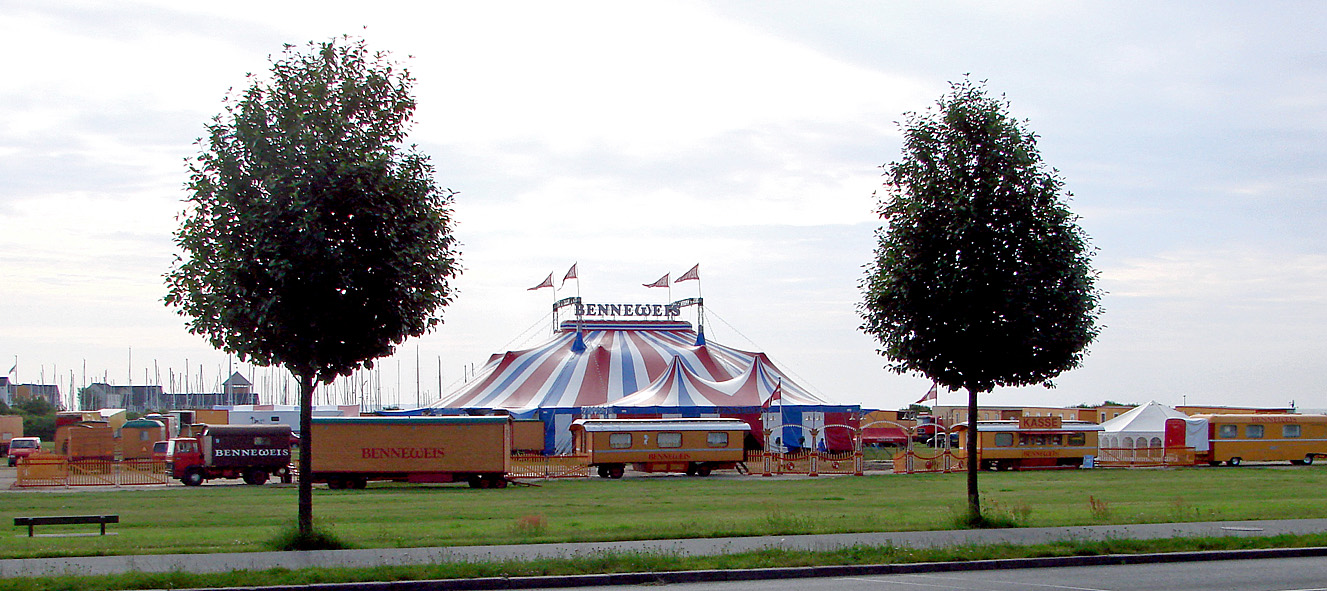 Circus Benneweis located on Tangkrogen in Aarhus, Denmark.